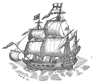 Wood-cut of the Red Dragon, captain Lancaster, in the Strait of Malacca, anno 1602–From the Dutch collection of East-India voyages, 1645–6.